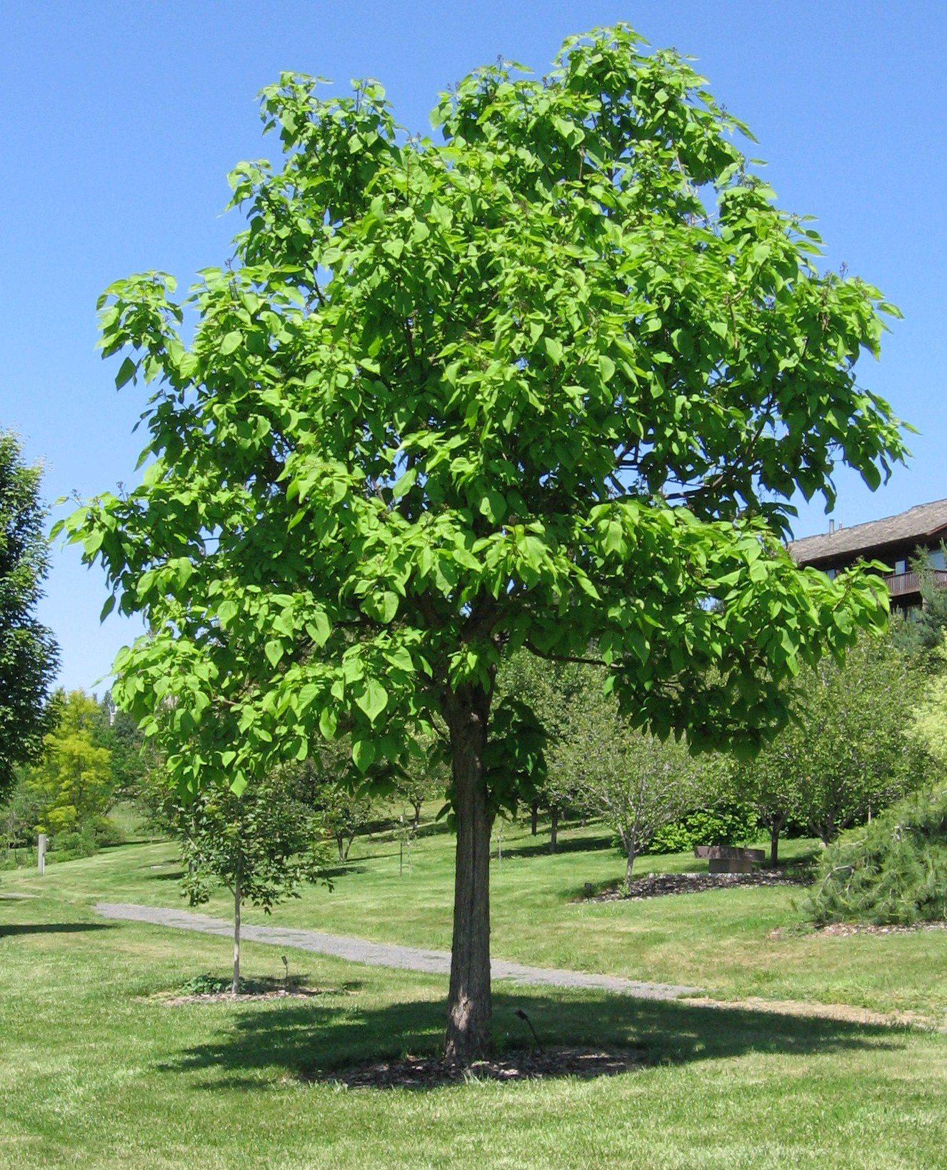 Catalpa speciosa (Northern Catalpa), photographed at the University of Idaho Arboreturm and Botanical Garden